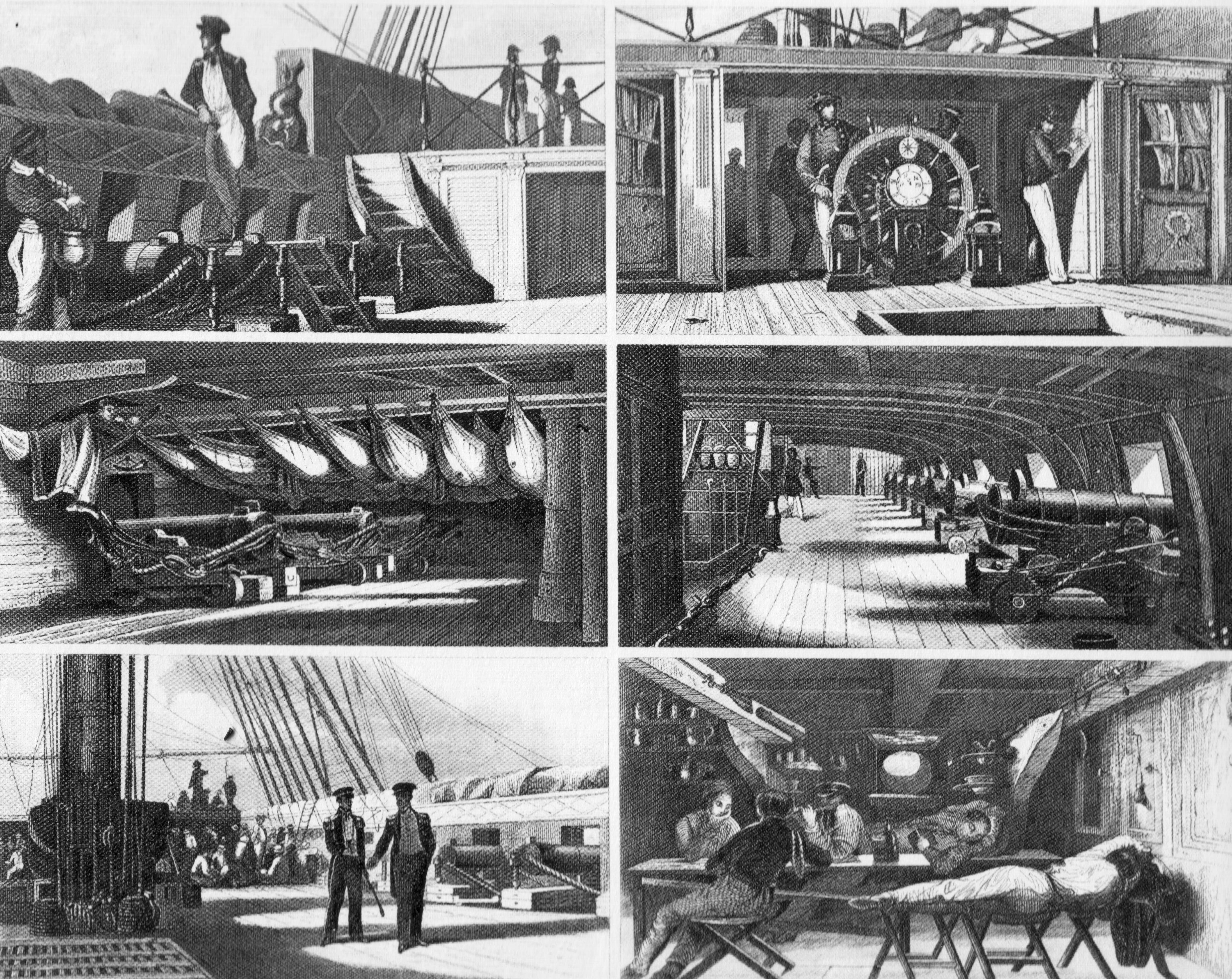 Imperial fleet.